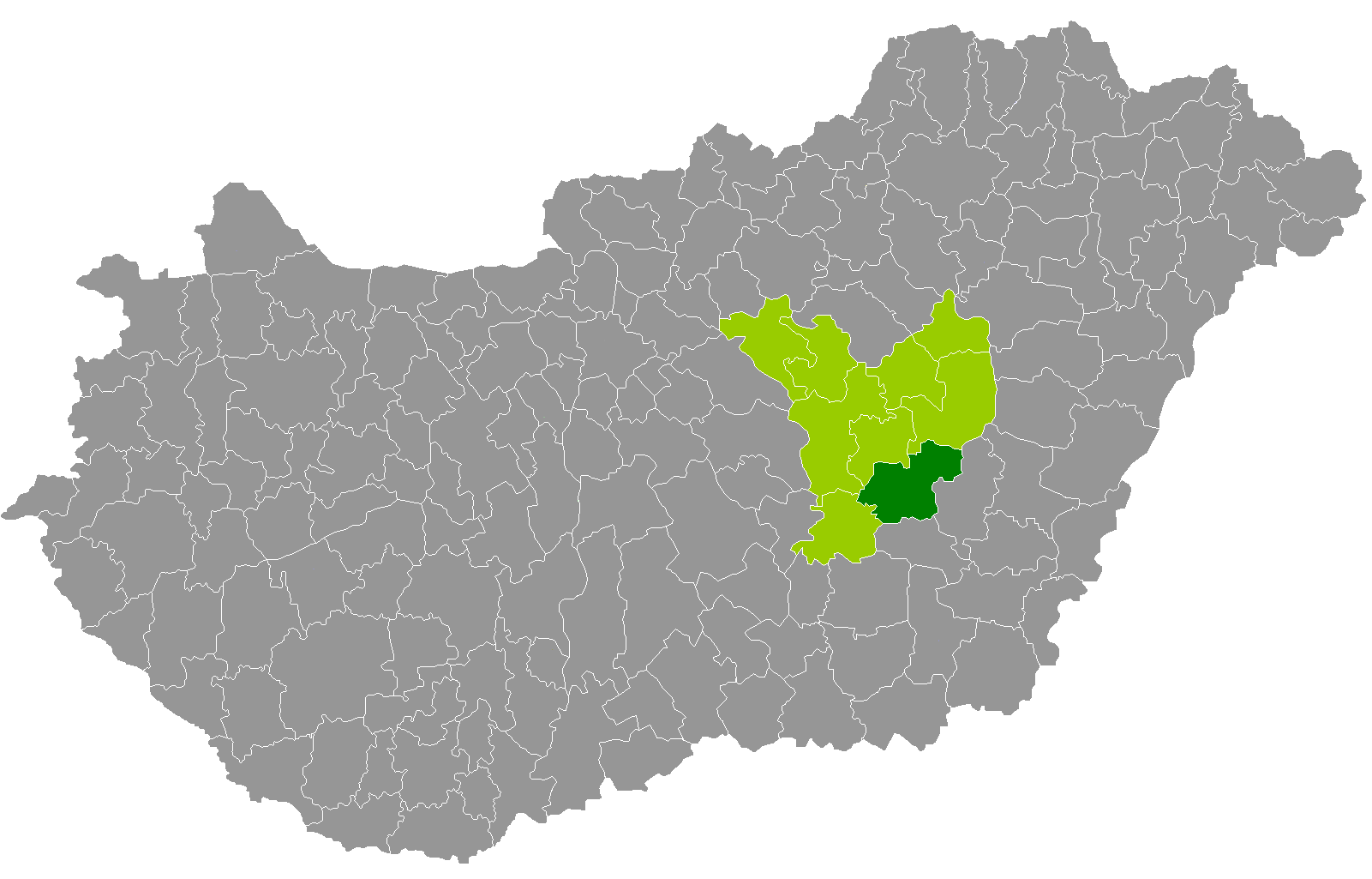 Location of Mezőtúr District, Jász-Nagykun-Szolnok, Hungary